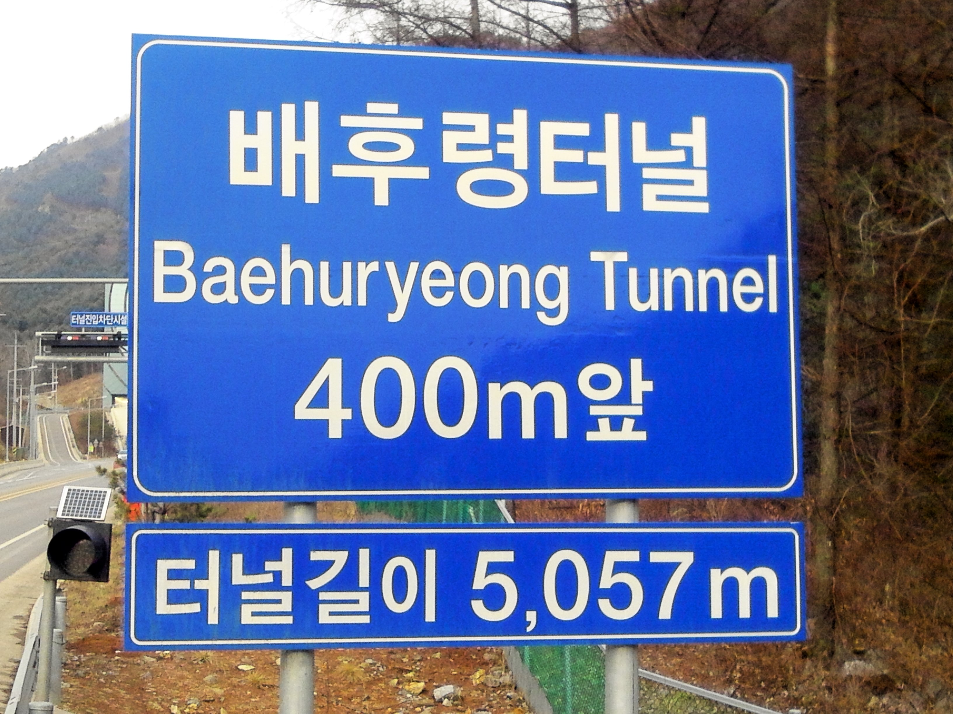 Notice sign of Baehuryeong Tunnel